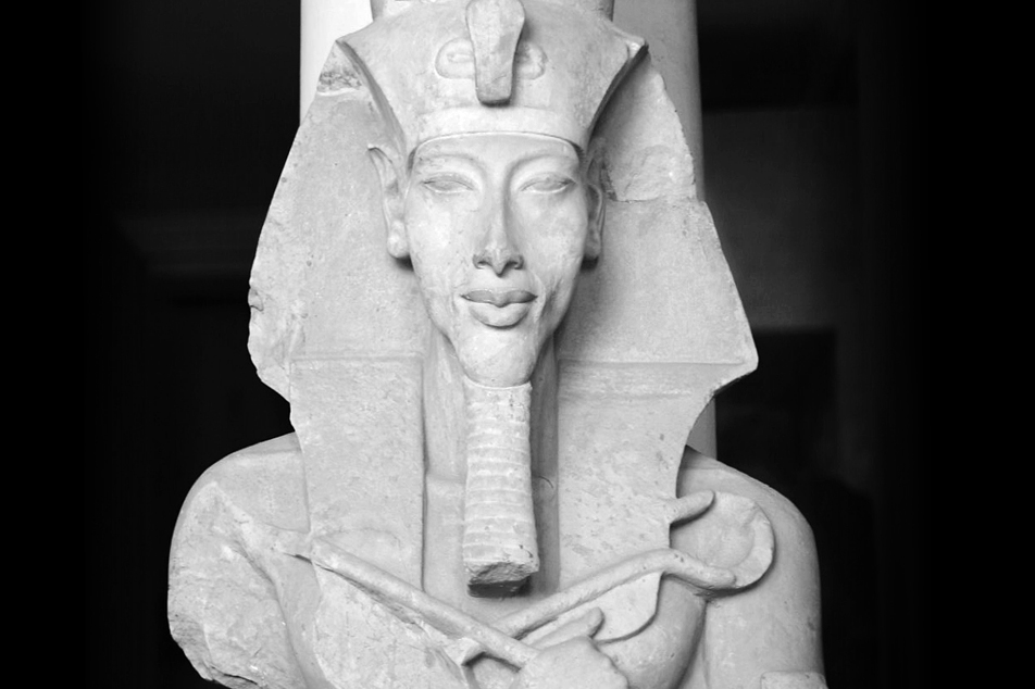 A colossal statue of Akhenaten from his Aten Temple at Karnak.